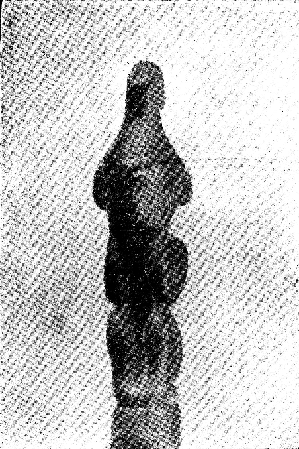 Igorot sculpture of Lumawig, a culture hero and a supreme being of the Bontoc people (1909)